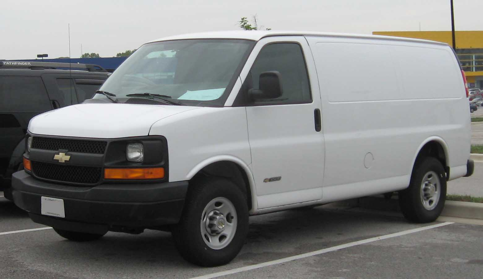 2003–2008 Chevrolet Express photographed in College Park, Maryland, USA.